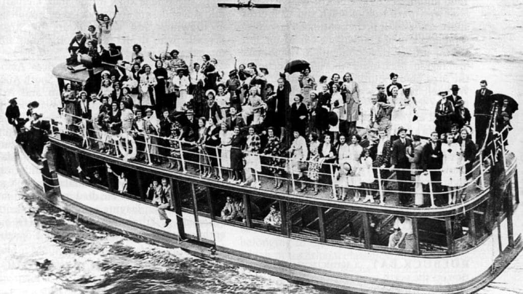 Rodney, pictured shortly before she capsized. 1938. later renamed Regalia